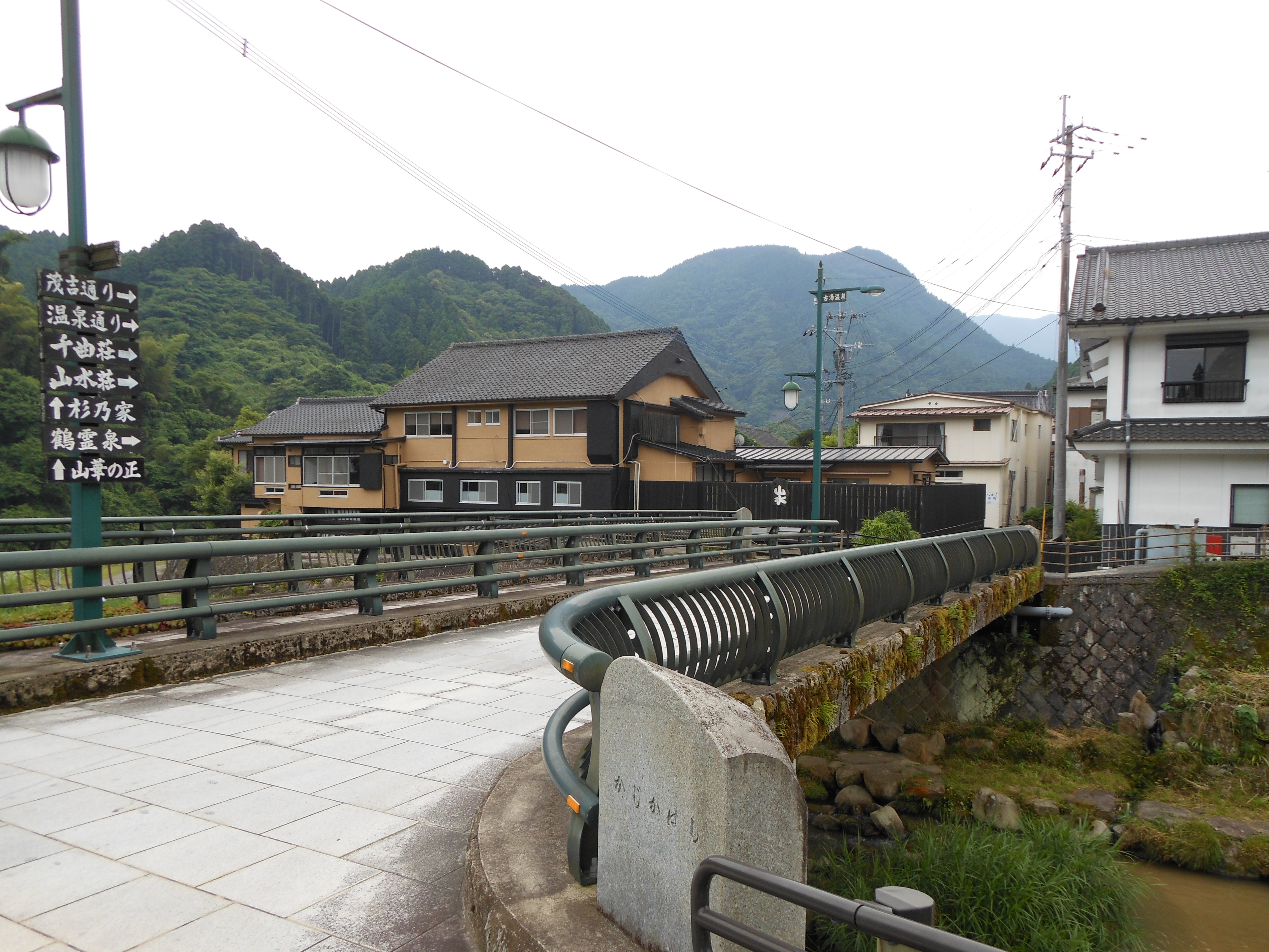 Main Street(Route 323) in Furuyu Spa, Furuyu, Fuji, Saga City.